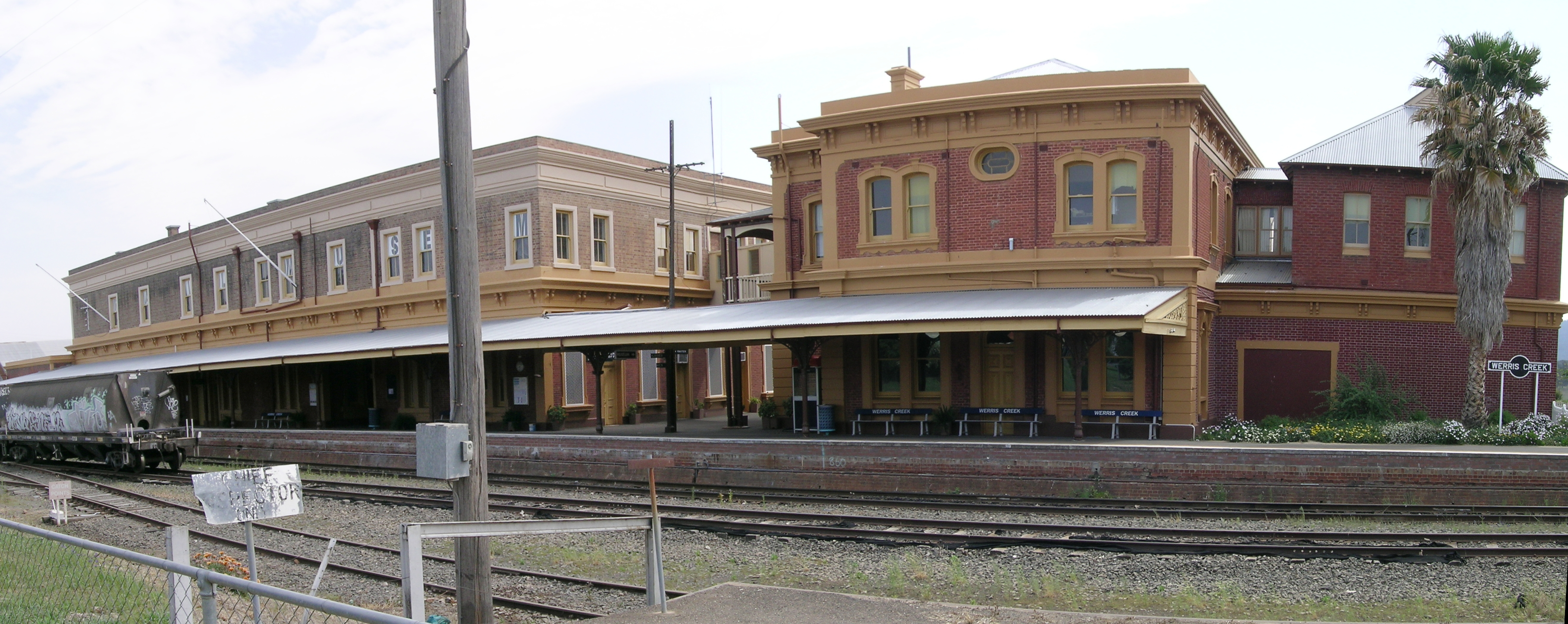 Werris Creek, NSW railway station. The Railway Station at Werris Creek has been a major rail junction in northern NSW for well over a century.